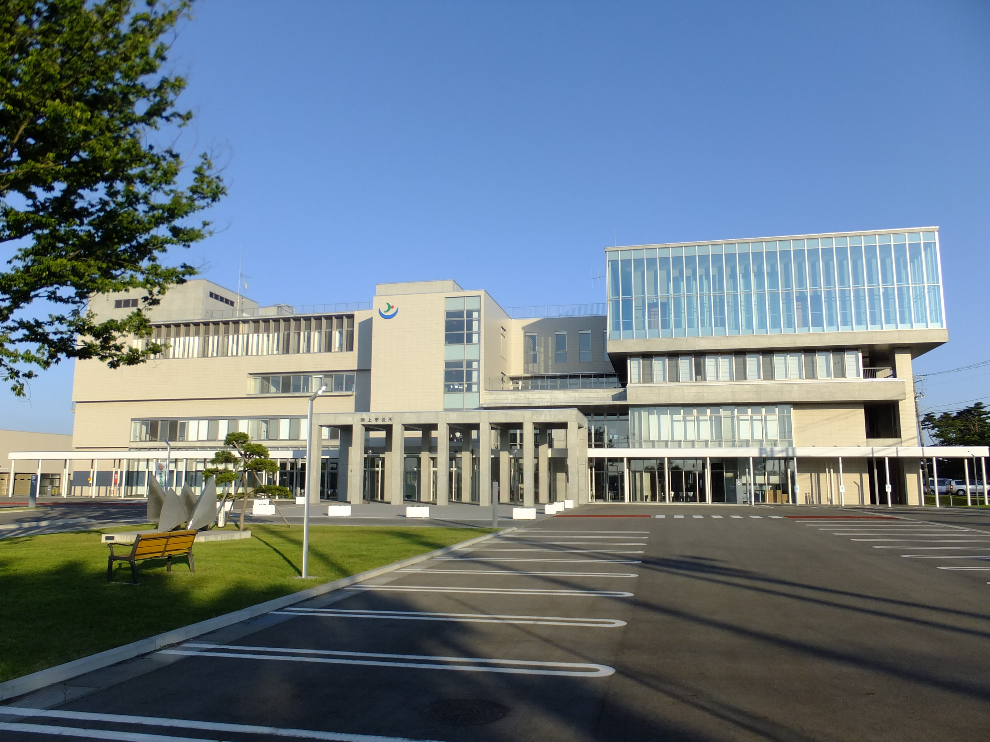 Katagami City Hall in Akita prefecture, Japan